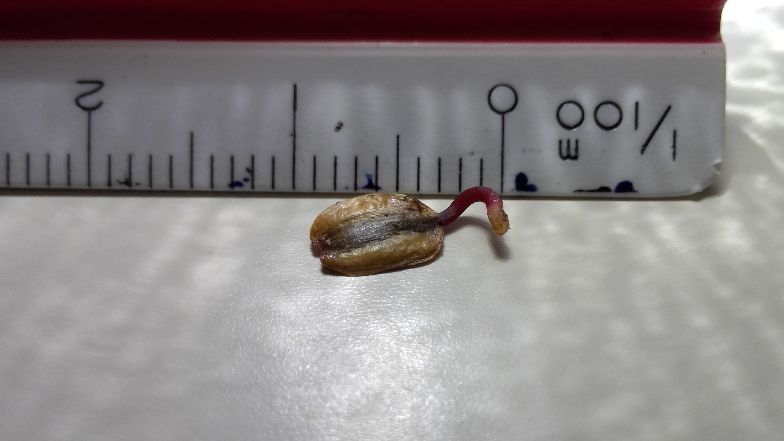 Sprouted seed of Sequoiadendron giganteum. The location associated with the file is the place where the parent tree grows, not the place where the photo was taken.